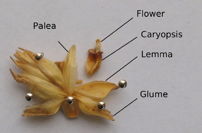 Wheat spikelet (Triticum aestivum) with glumes, lemma and palea opened to show the caryopsis, dried while unripe.